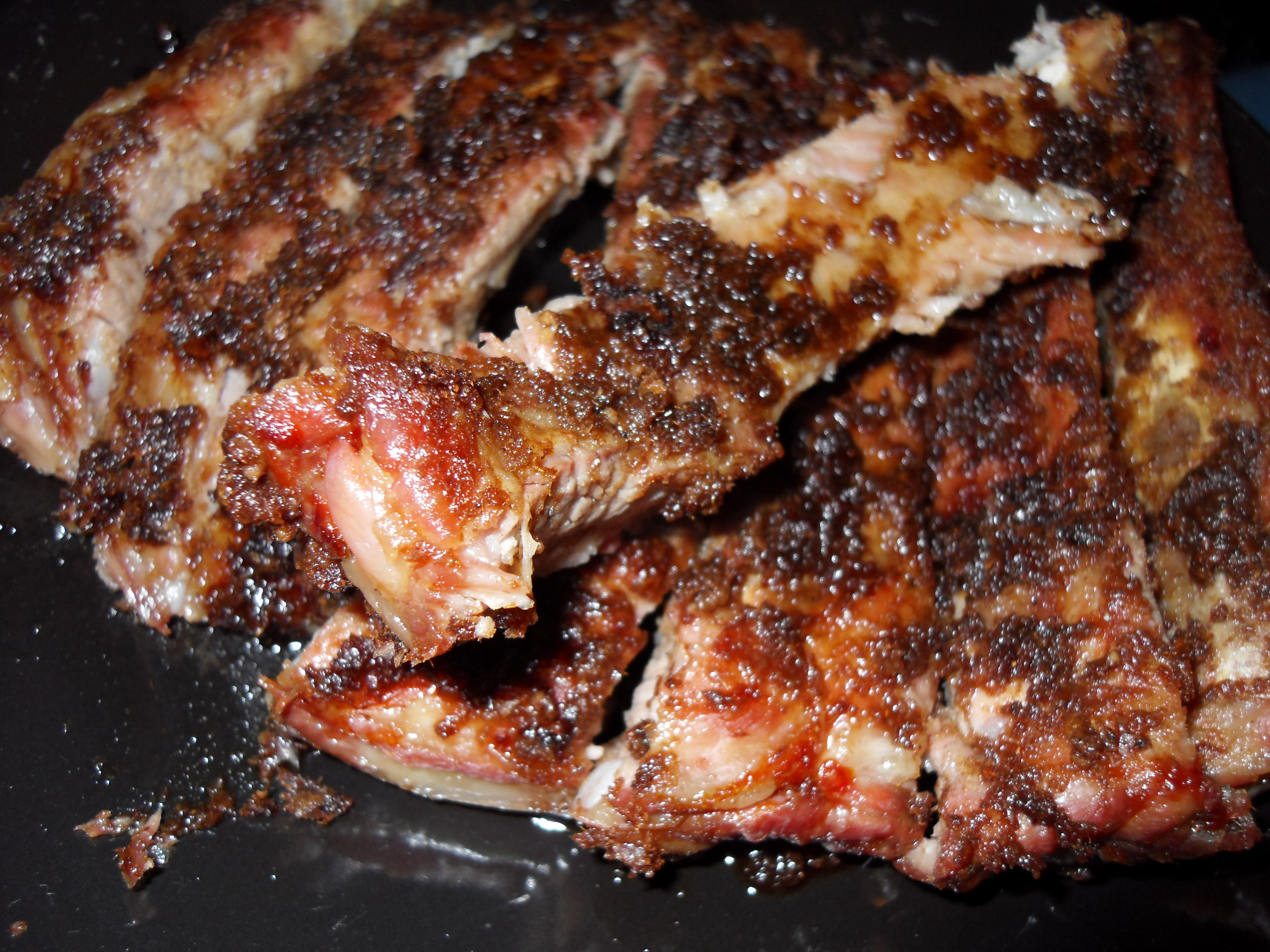 Pork spare ribs in Chinese barbecue sauce